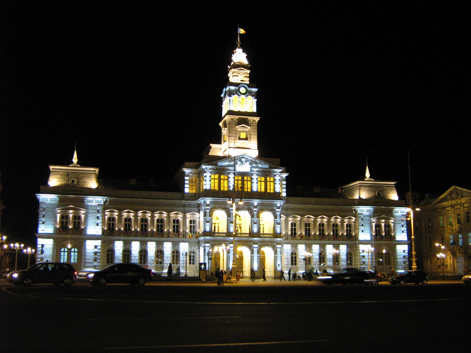 The town hall in the town of Arad in Banat region of Romania.